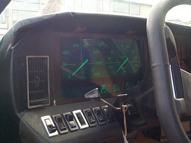 Very "Space 1999"-like dashboard of an actual Matra Bagheera type I (1975)